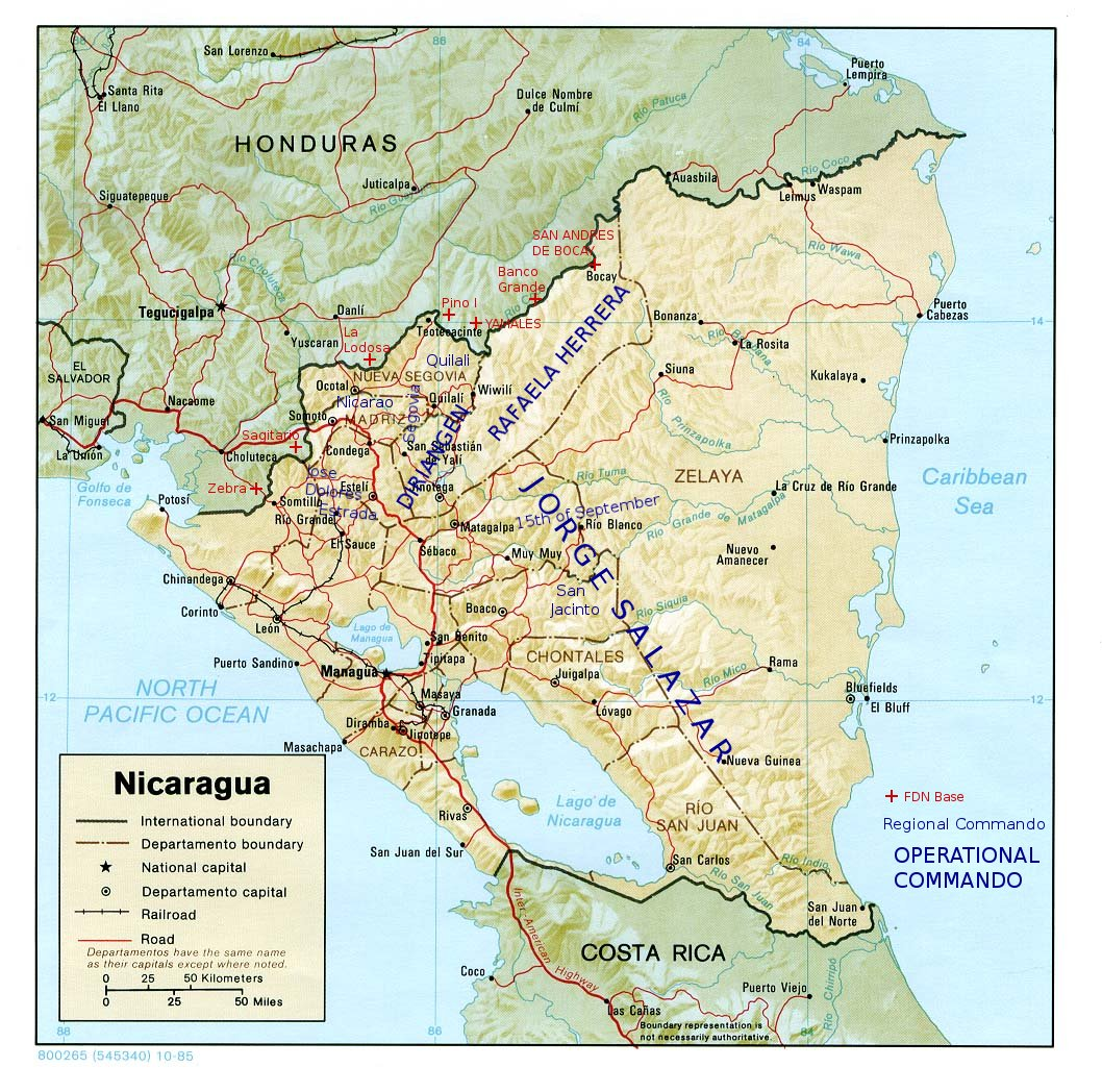 This map depicts rebel FDN bases and operational areas, and is intended for use with the Nicaraguan Democratic Force article, and potentially other articles related to the contra war. It is a derivative work of the CIA's 1985 relief map of Nicaragua, which is in the public domain as a product of the US federal government, as scanned and made available through the Perry-Castañeda Library Map Collection of the University of Texas at Austin's site: Locations added by hand should be roughly accurate.